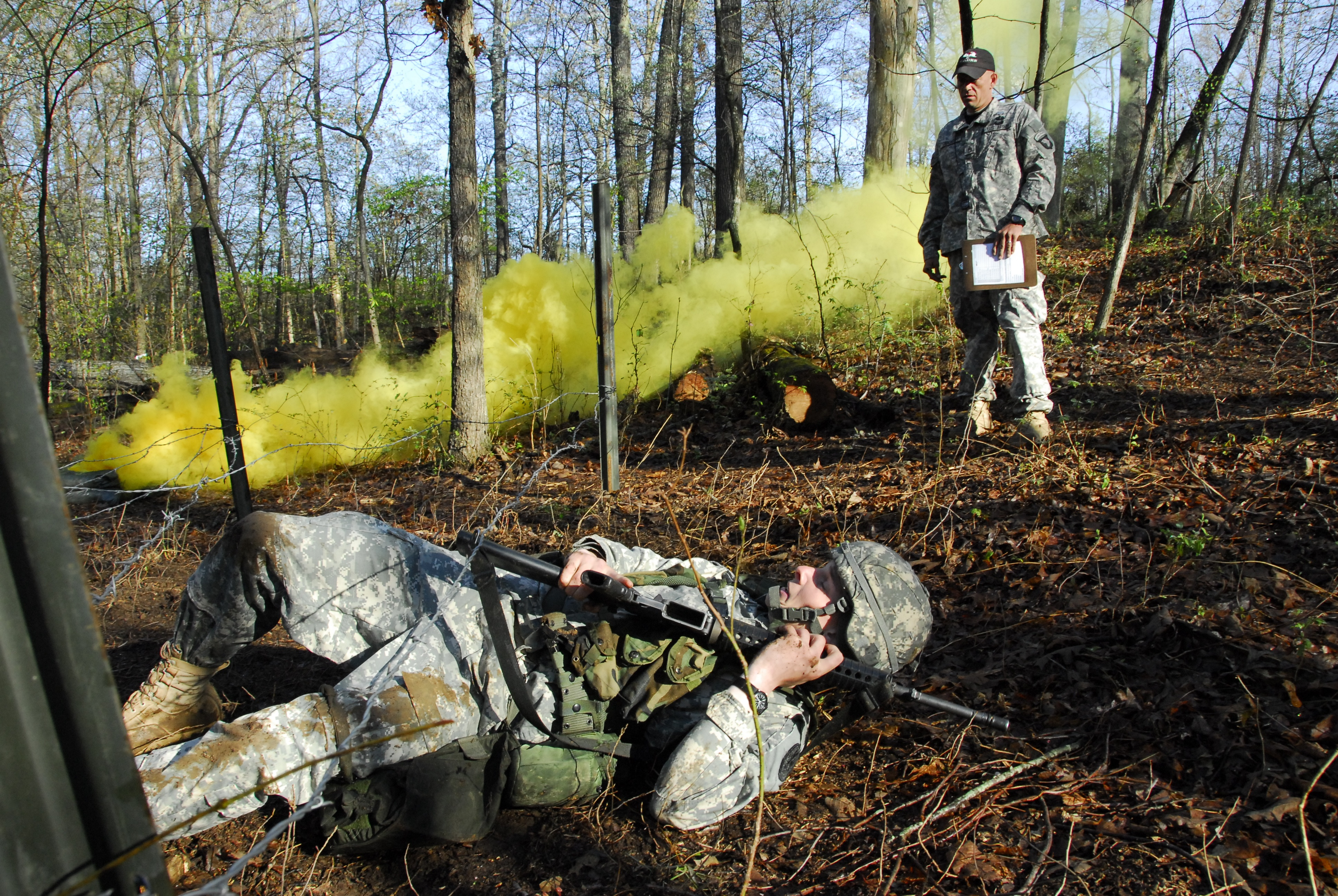 Spec. Timothy Hoffman, with MEDDAC at Fort Jackson S.C., crawls under a barbed-wire obstacle as Staff Sgt. Jack Decker, with the 426th BSB, 1st Brigade Combat Team, 101st Airborne Division (Air Assault) evaluates his performance during Expert Field Medical Badge testing April 21 at Fort Campbell, Ky. Soldiers from the Blanchfield Army Community Hospital organized and are running the EFMB training and testing program. The 101st Sustainment Brigade "Lifeliners" are providing the bulk of the Logistics and Support for the event.